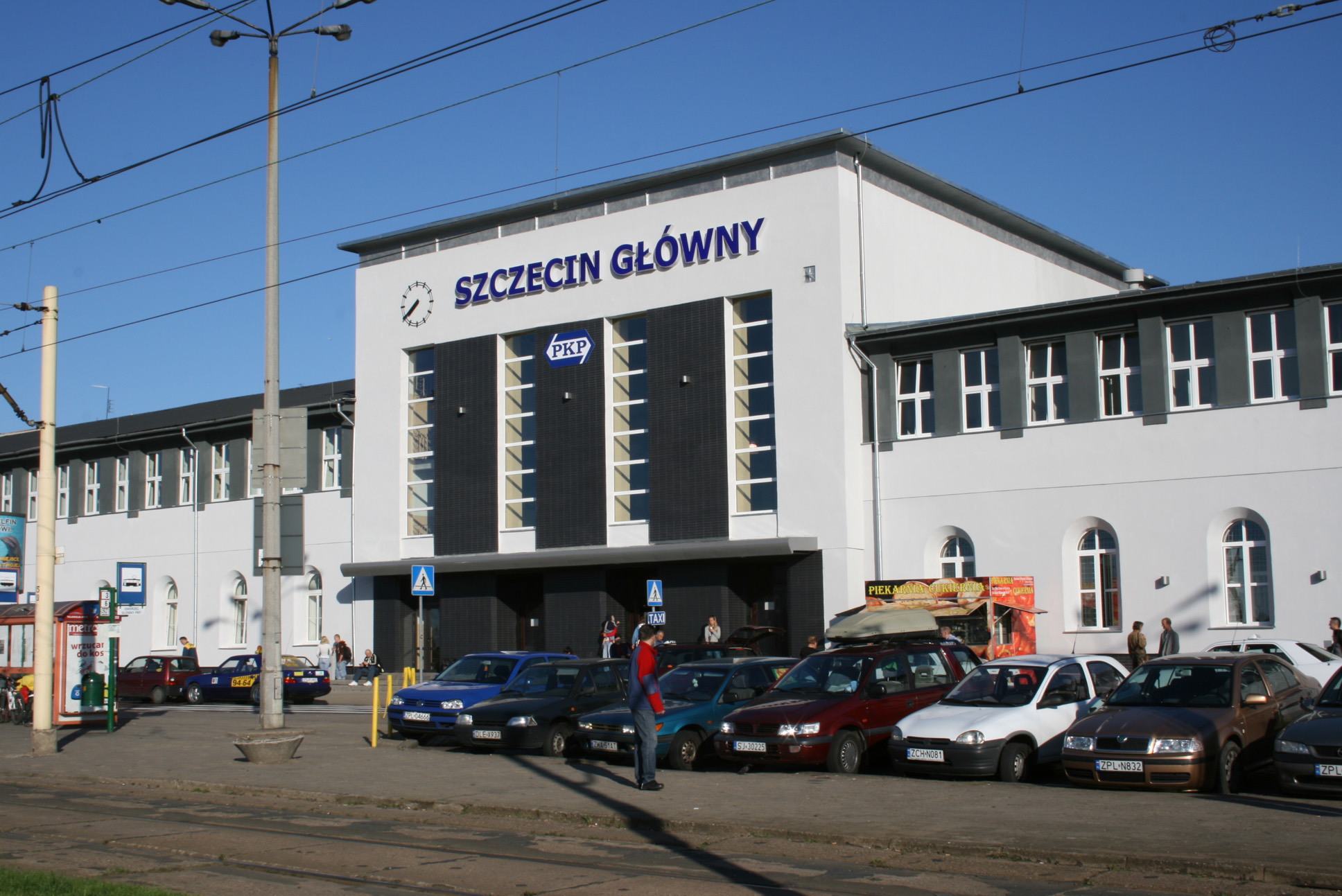 Stettin central train station